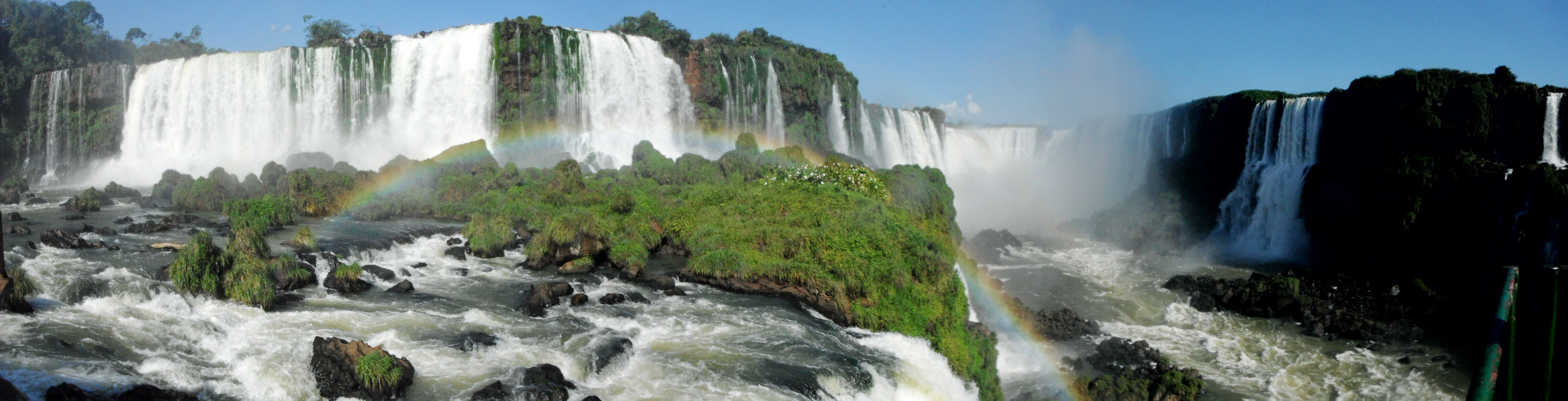 Iguaçú National Park